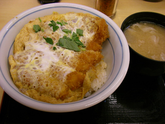 Katsudon - WebSig year end party